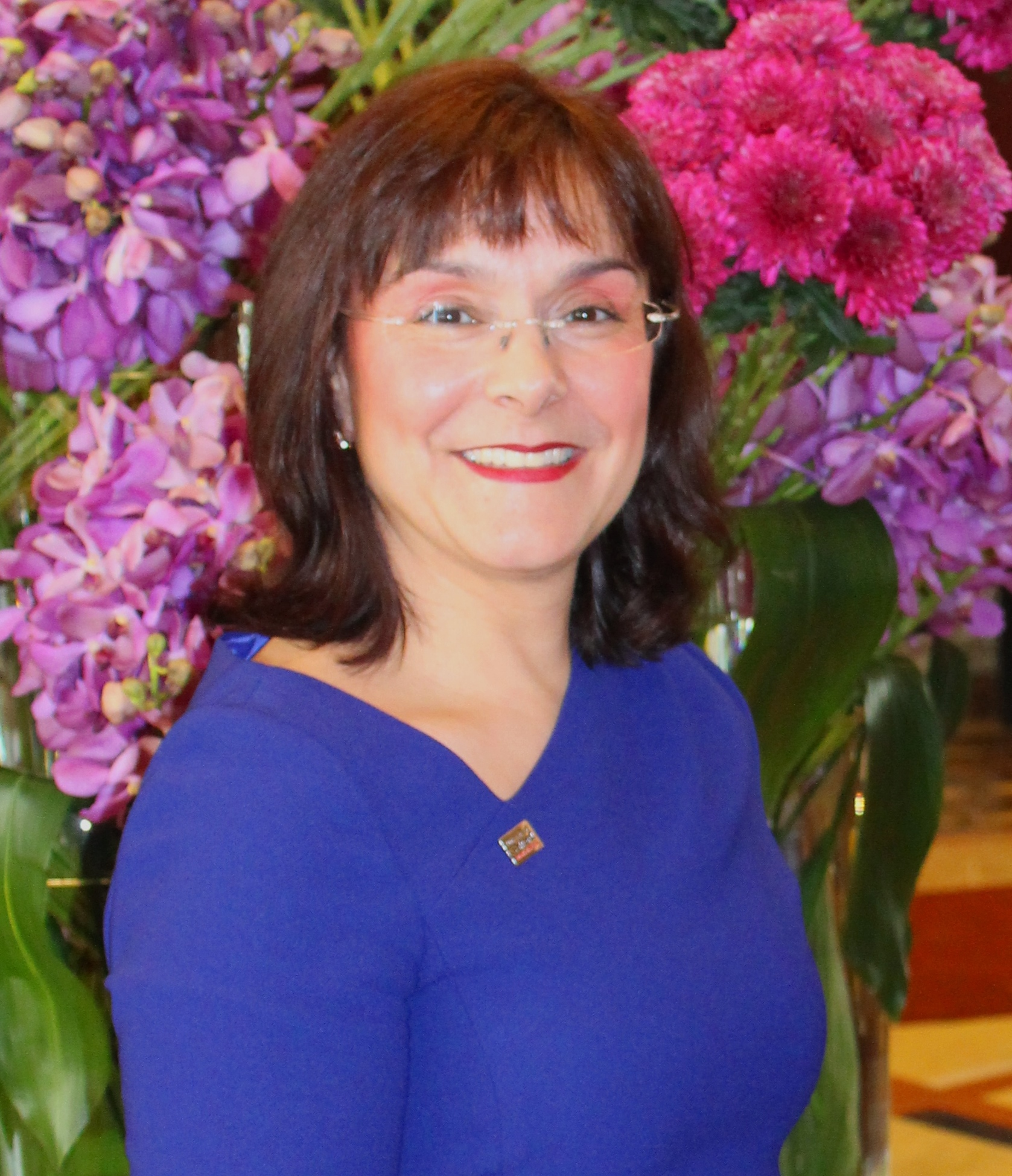 Professor Amanda Broderick, Dean of Salford Business School and Pro-Vice Chancellor (right) meets with the newest member of the SalfordUAE Advisory Board in Abu Dhabi, Lady Barbara Judge CBE (right)